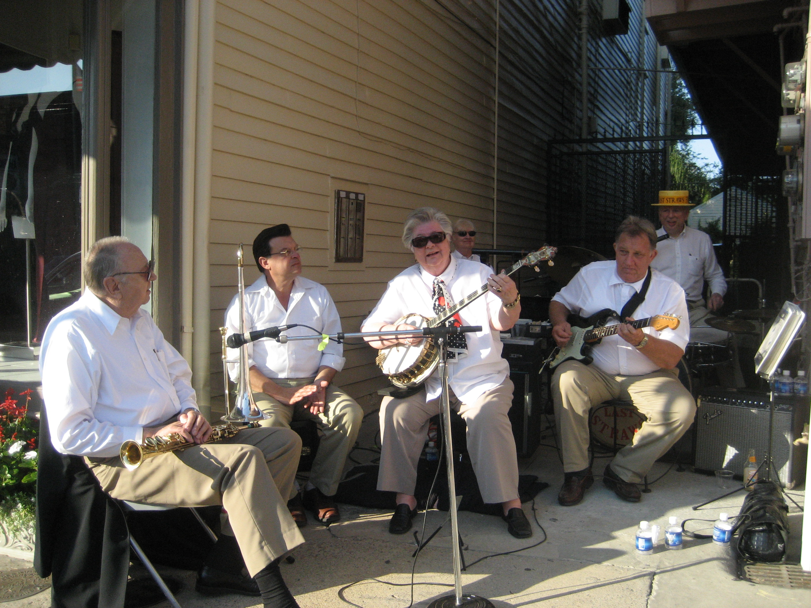 Magazine Street, New Orleans. "The Last Straws" jazz band performing for local merchants festival.